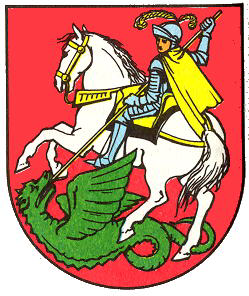 Coat of arms of Gößnitz